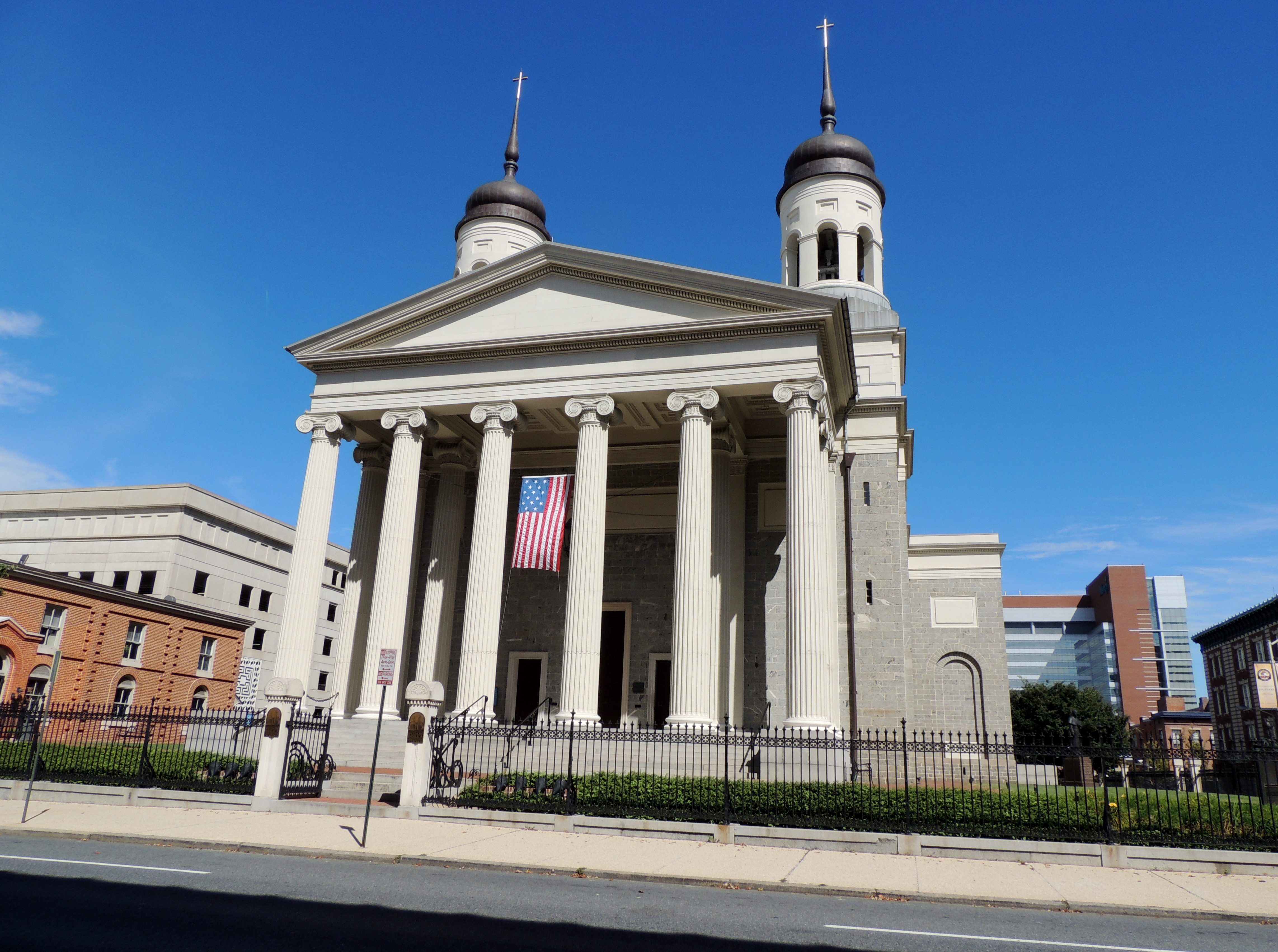 Cathedral Hill Historic District, Roughly bounded by Hamilton, Saint Paul, Charles, Saratoga, and Cathedral Sts. Central